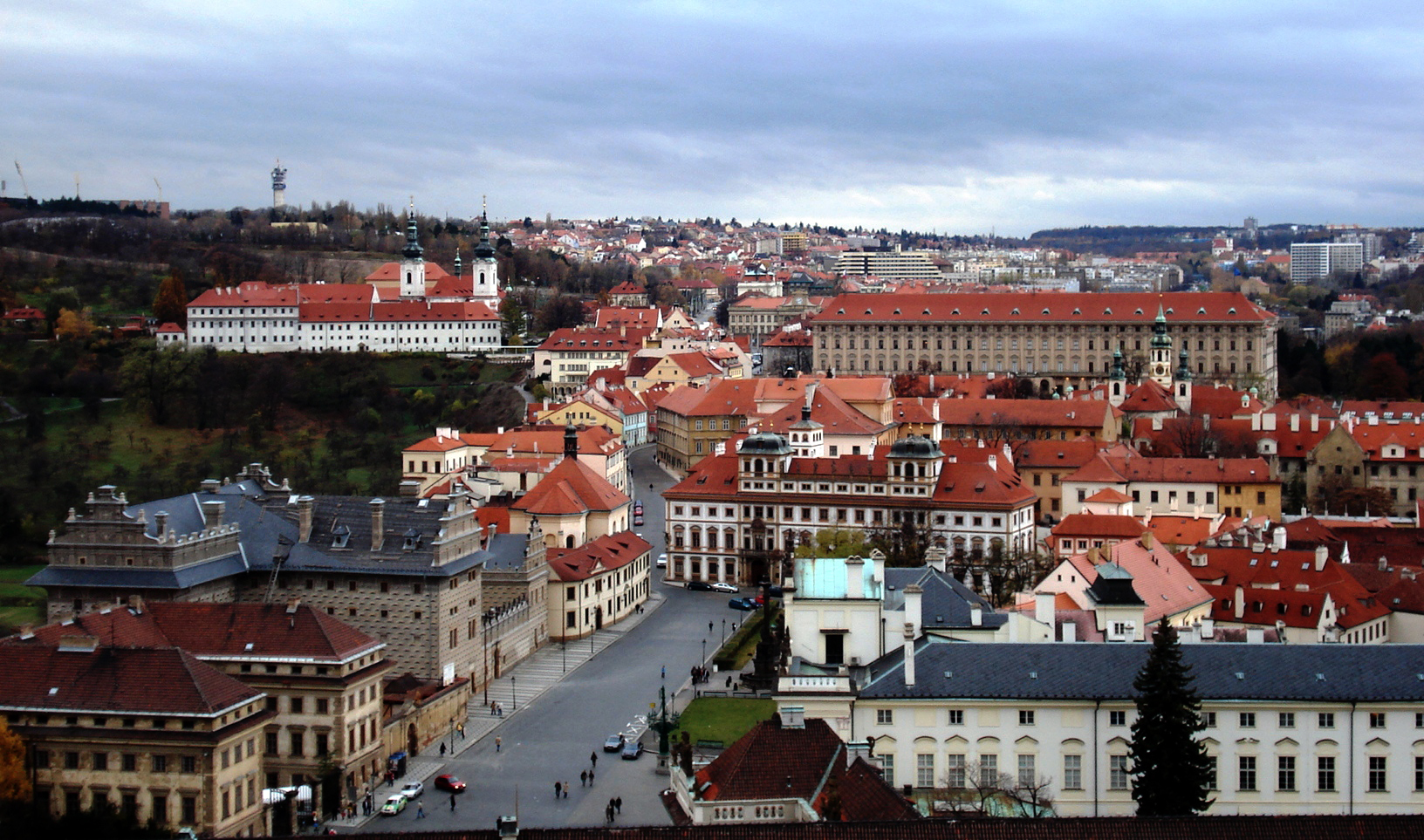 global view of Hradčany from the South Tower of Saint-Vitus cathedral.